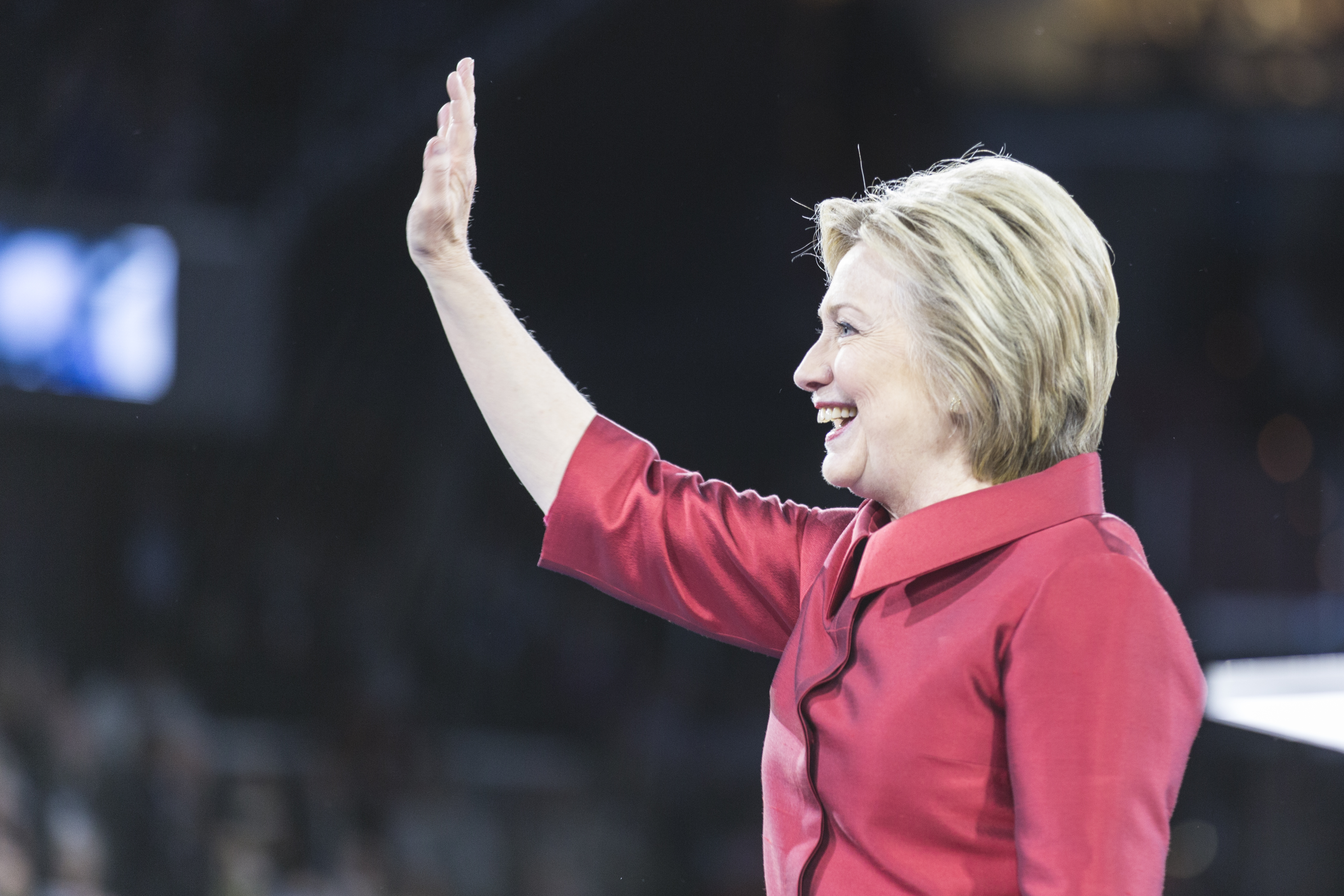 Hillary Clinton waves to the crowd at the AIPAC Policy Conference in Washington DC 2016